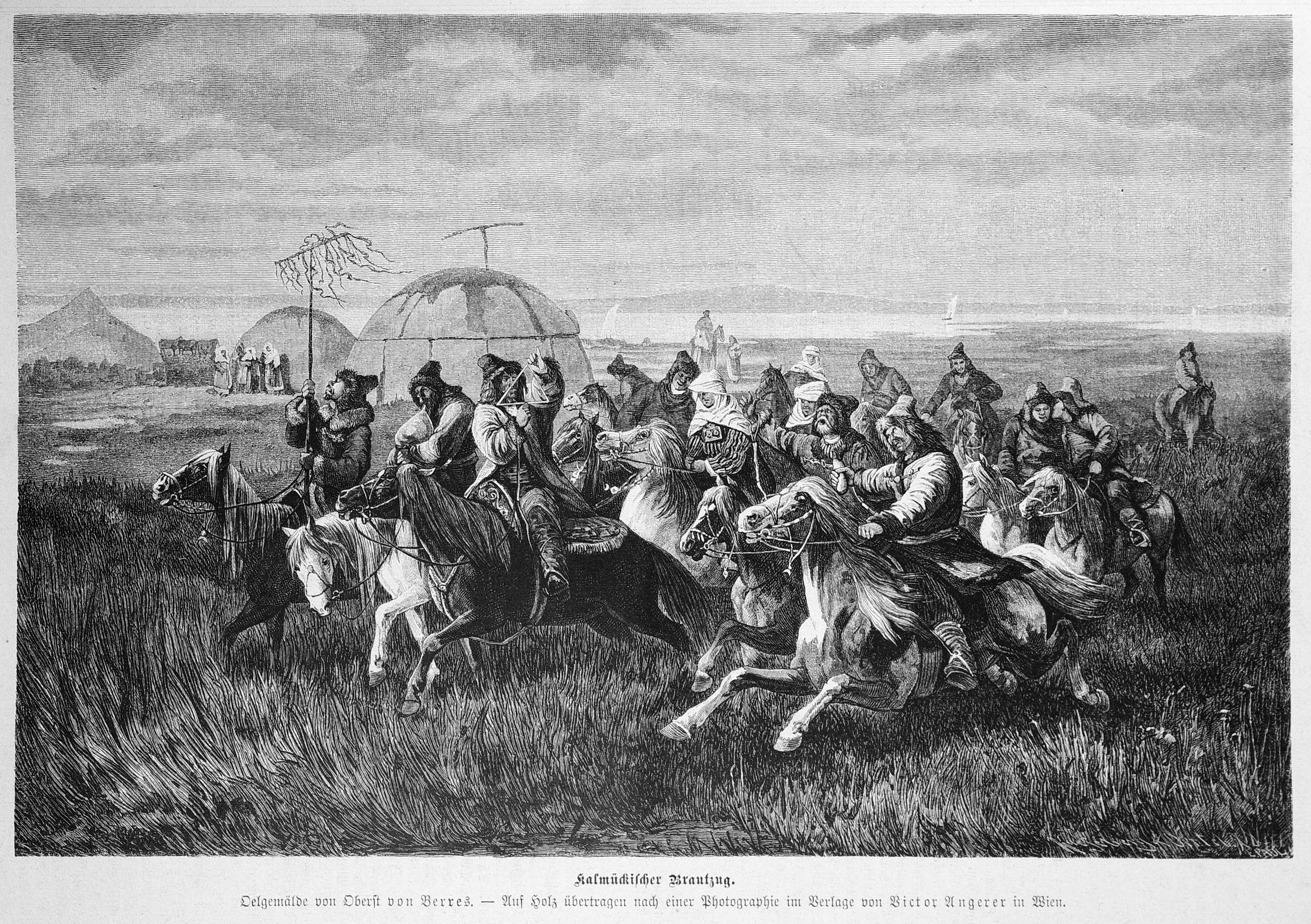 caption: "Kalmückischer Brautzug. Oelgemälde von Oberst von Berres. – Auf Holz übertragen nach einer Photographie im Verlage von Victor Angerer in Wien."